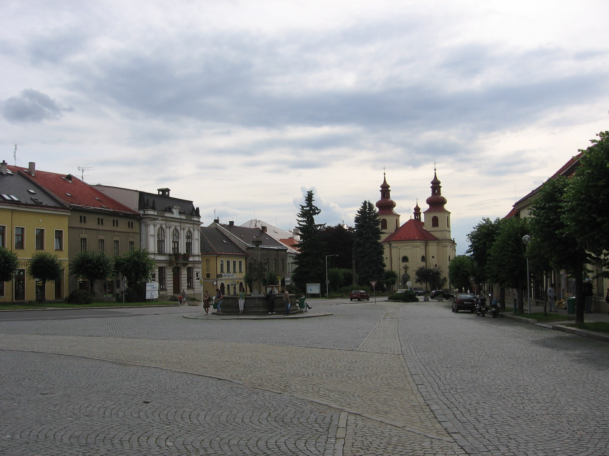 Hus's Square in Vamberk (Czech Republic)